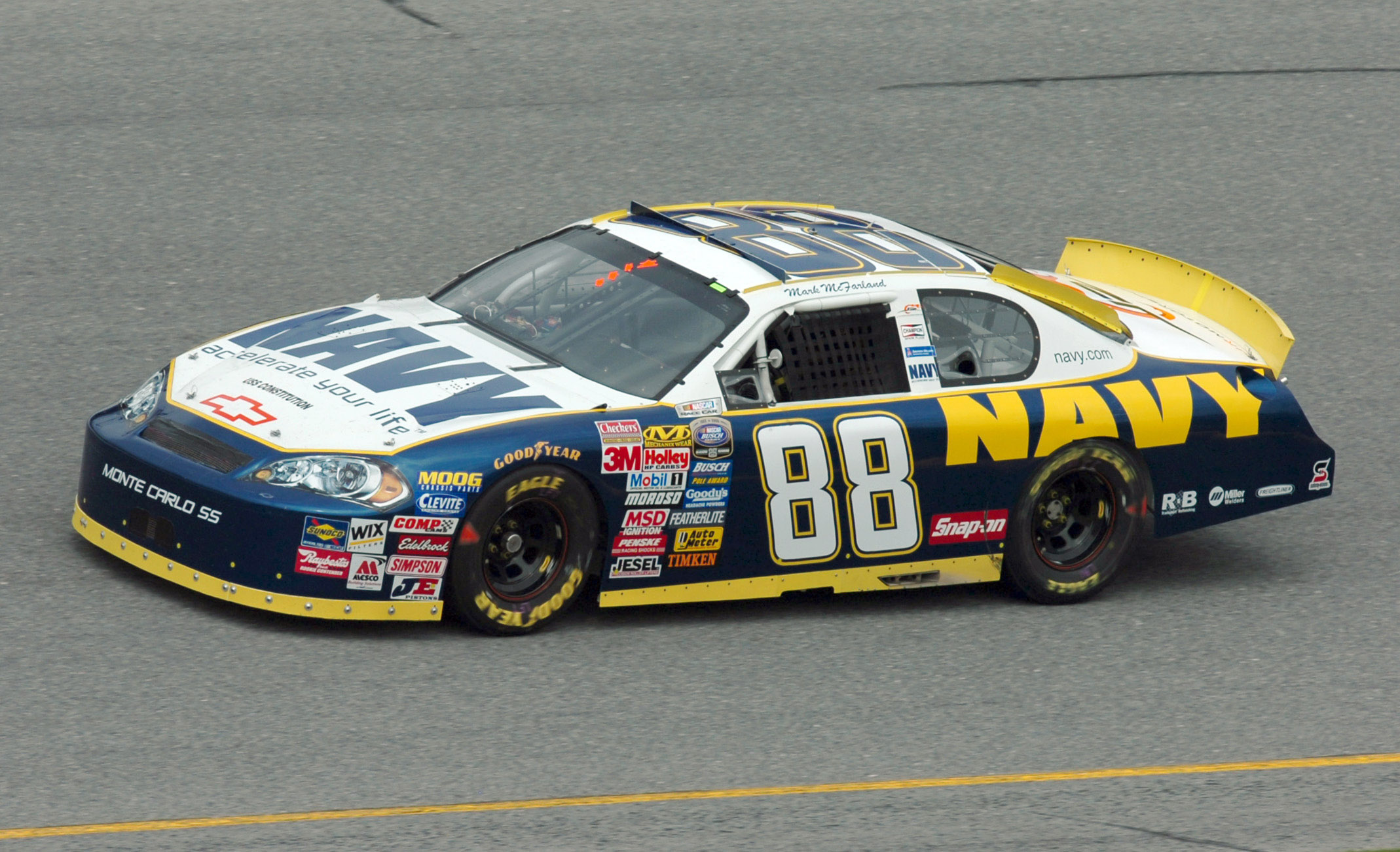 060216_N-5862D-158 Daytona, Fla. (Feb 15, 2006) - Mark McFarland drives the NASCAR Busch No. 88 “Navy - Accelerate Your life” Chevrolet Monte Carlo during a practice session at the Daytona International Speedway. Dale Earnhardt, Jr. owns the No. 88 car and is making its debut at the Hershey's Kissable 300 on Feb. 18, 2006. U.S. Navy photo by Chief Photographer's Mate Chris Desmond (RELEASED)